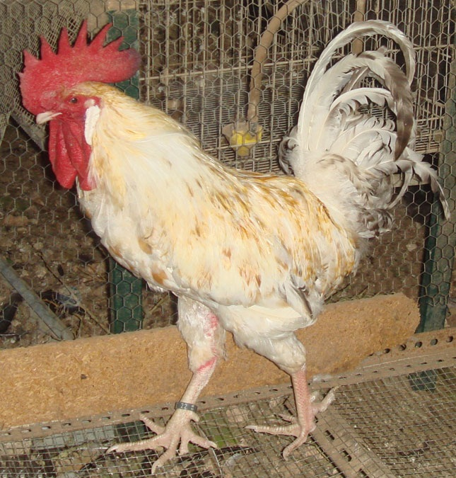 five fingers hen